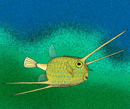 Reconstruction of the extinct boxfish, Eolactoria sorbinii, of the Lutetian epoch, Eocene Monte Bolca